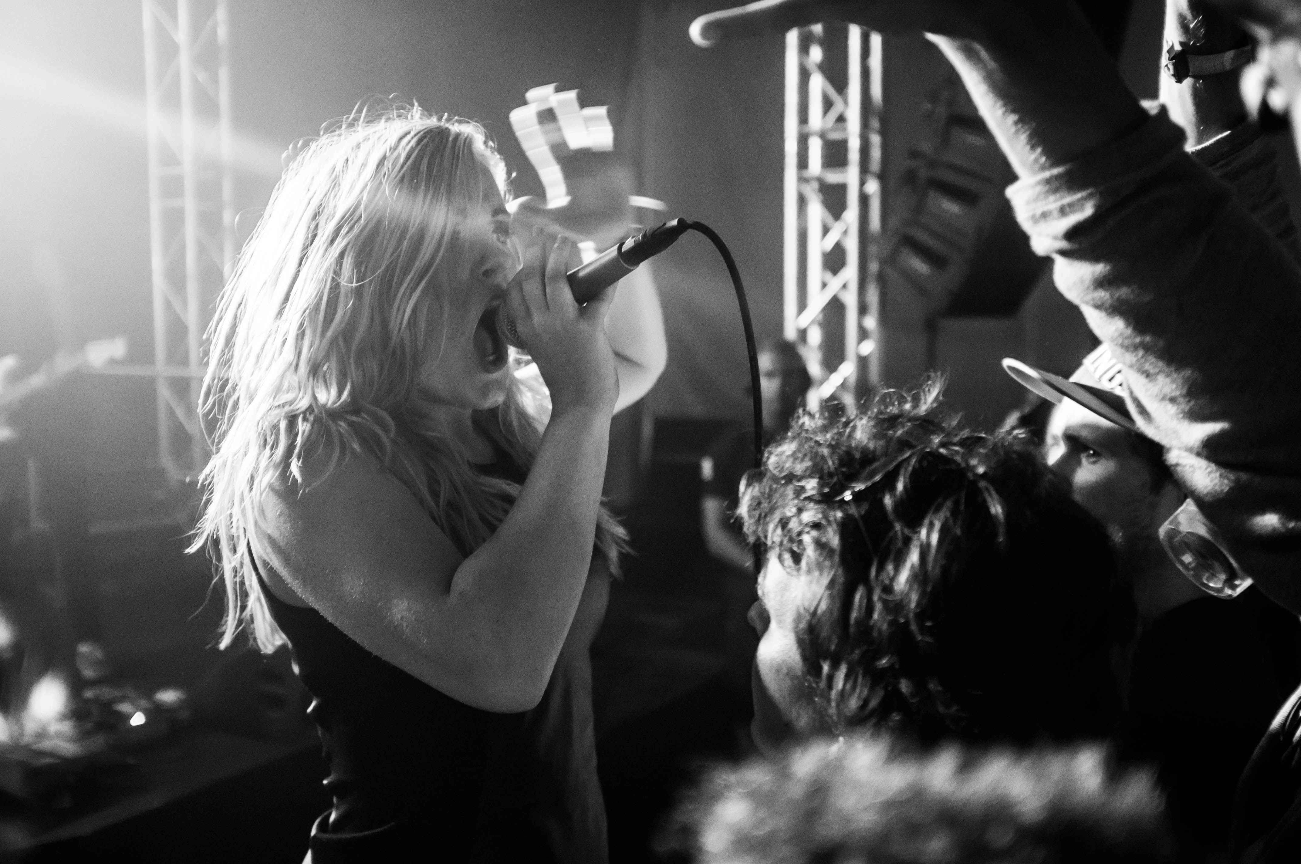 Frk. Fryd at Slottsfjell 2014